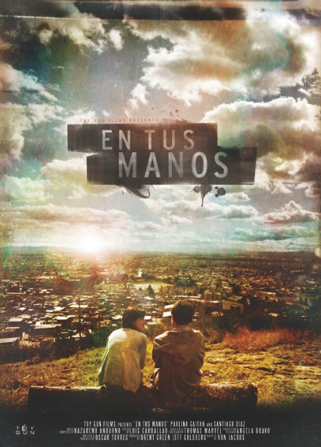 This image is one that was made for the short film En Tus Manos.